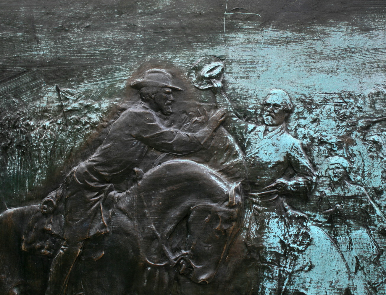 General Gordon and Lee at the battle of Spotsylvania, the Gordon monument by Solon Hannibal Borglum (1868-1922) dedicated in 1907.